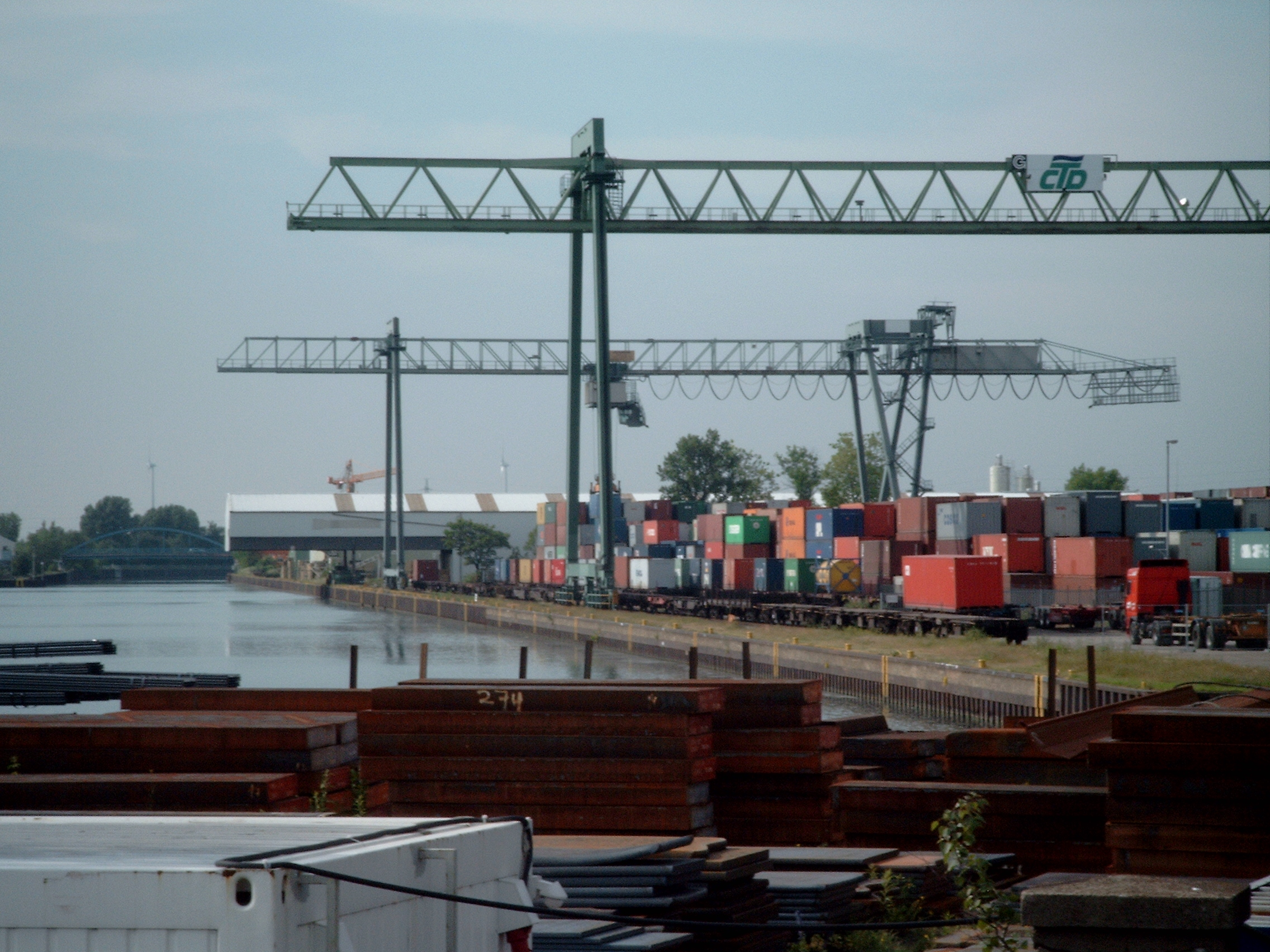 Container-Harbor of Dortmund